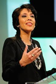 Anna Maria Chavez speaks on behalf of the Girl Scouts in 2012 on project ToGetHerThere.